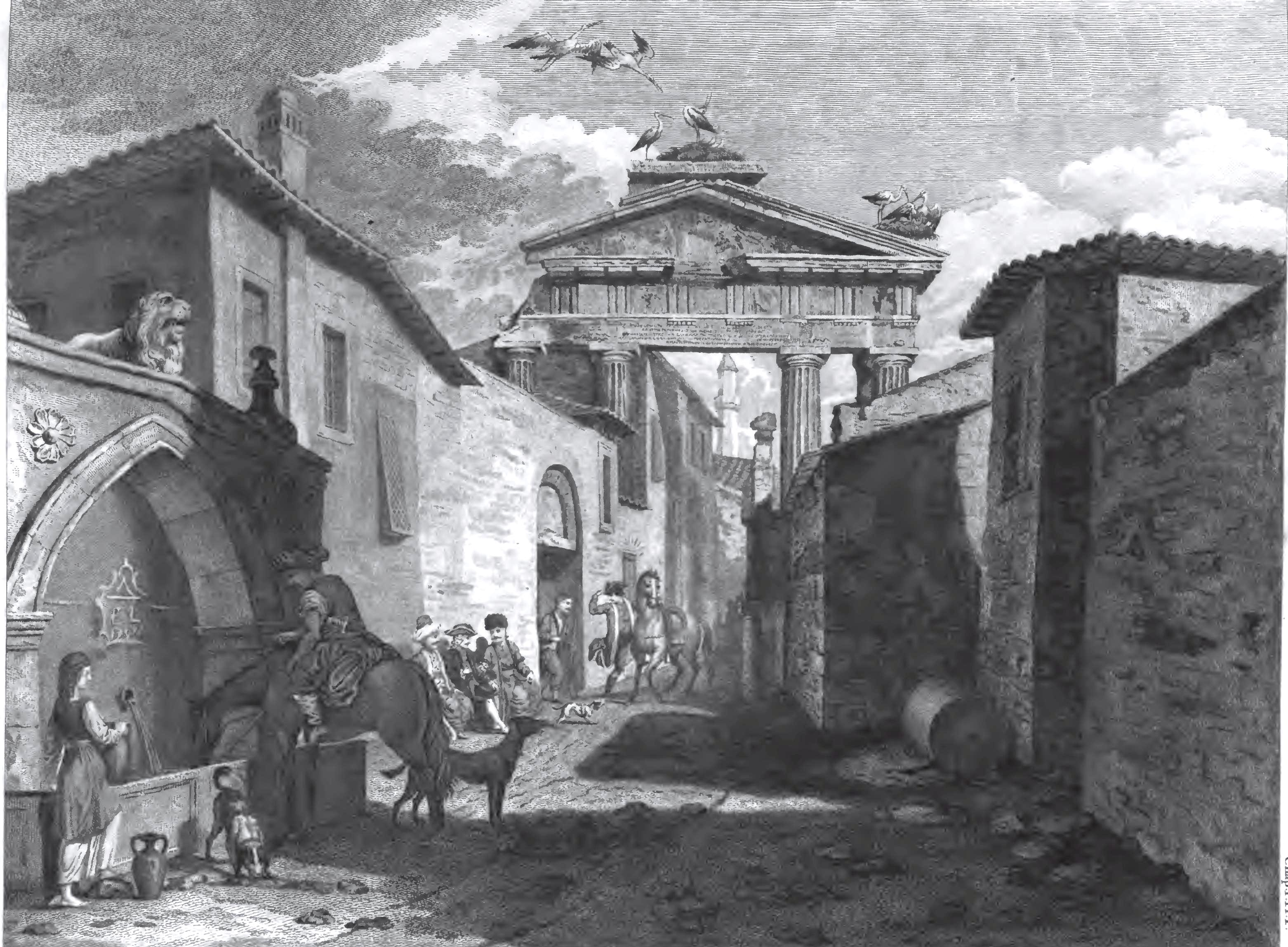 coperplate of the Doric Portico at Athens